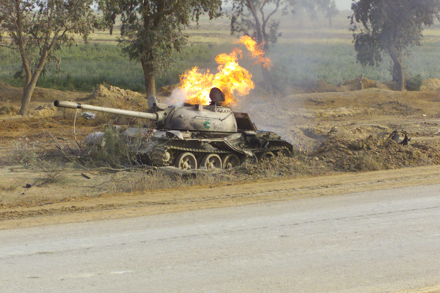 Still in flames, a destroyed Russian made T-55 Main Battle Tank (MBT) north of the An Nu'maniyah bridge on Highway 27, during Operation Iraqi Freedom